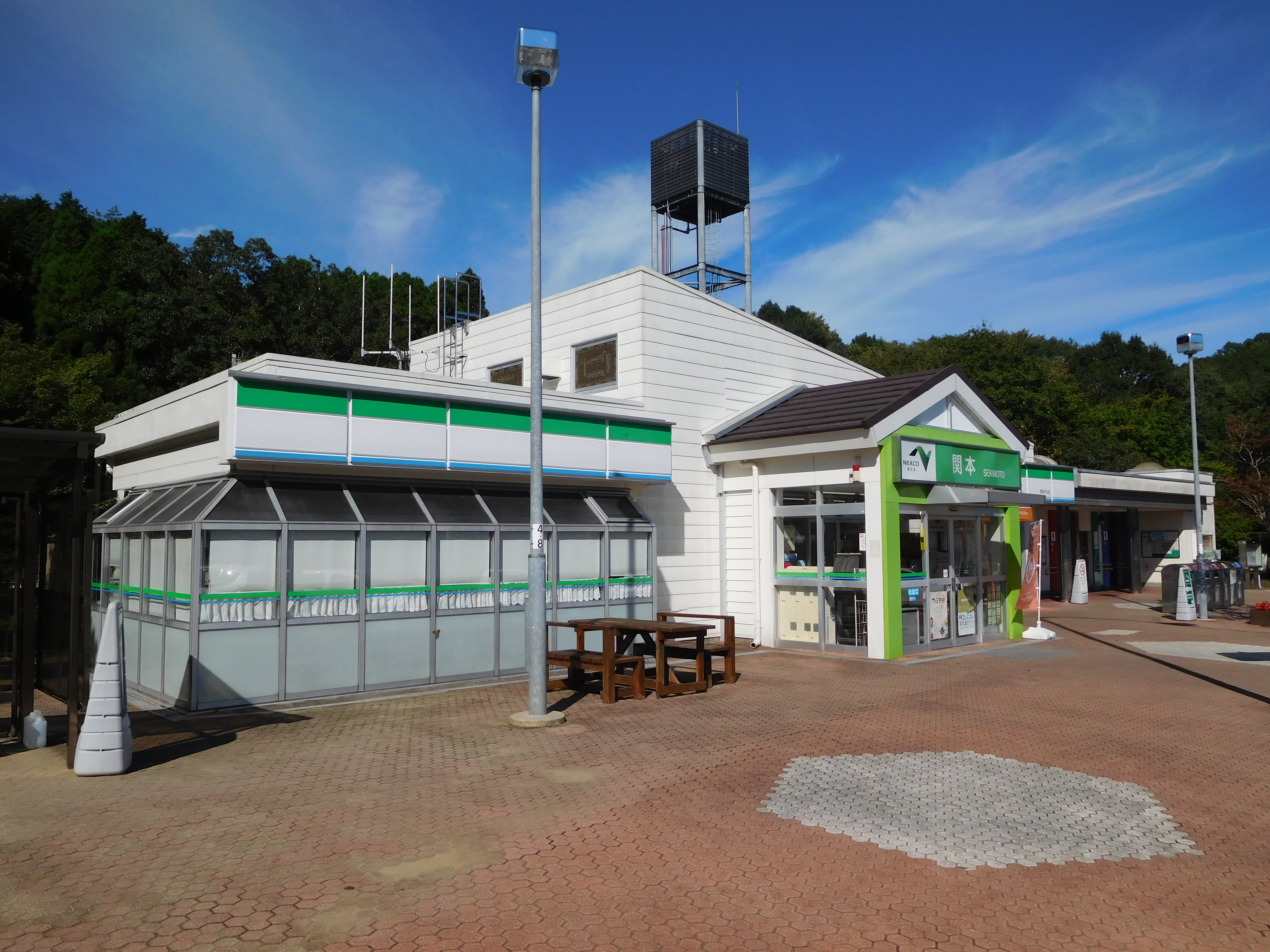 This is the Sekimoto Parking Area of Joban Expressway in Kitaibaraki, Ibaraki, Japan.